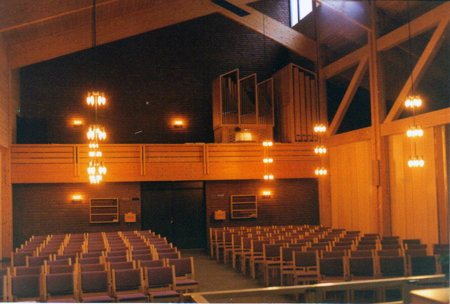 The first organ in Fossum Church in Oslo, Norway. Built by J. H. Jørgensen in 1976. 9 stops. The organ was moved to Mehamn Church in Finnmark, North Norway in 1991.